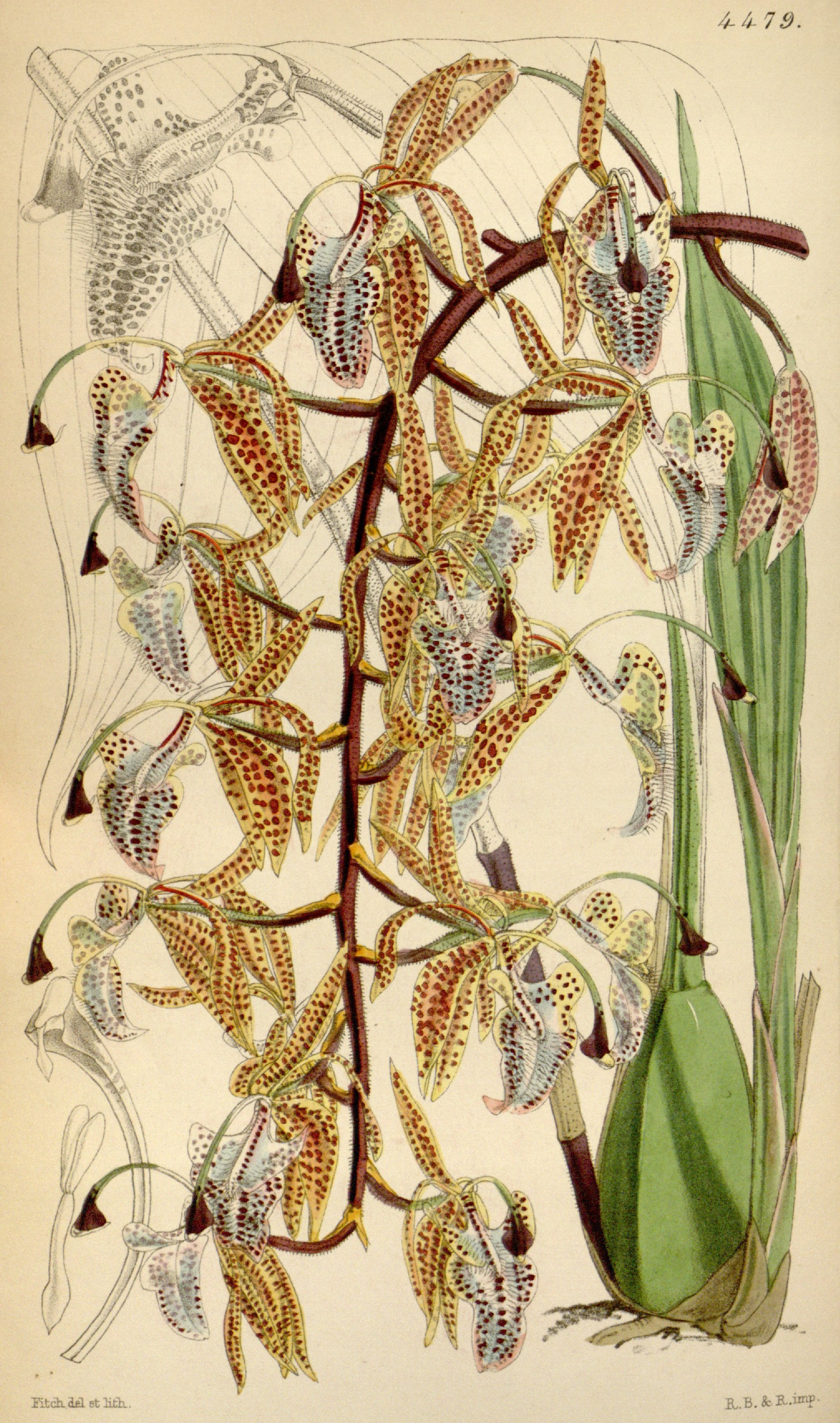 Illustration of Polycycnis barbata (as syn. Cycnoches barbatum, spelled Cychnoches barbatum)